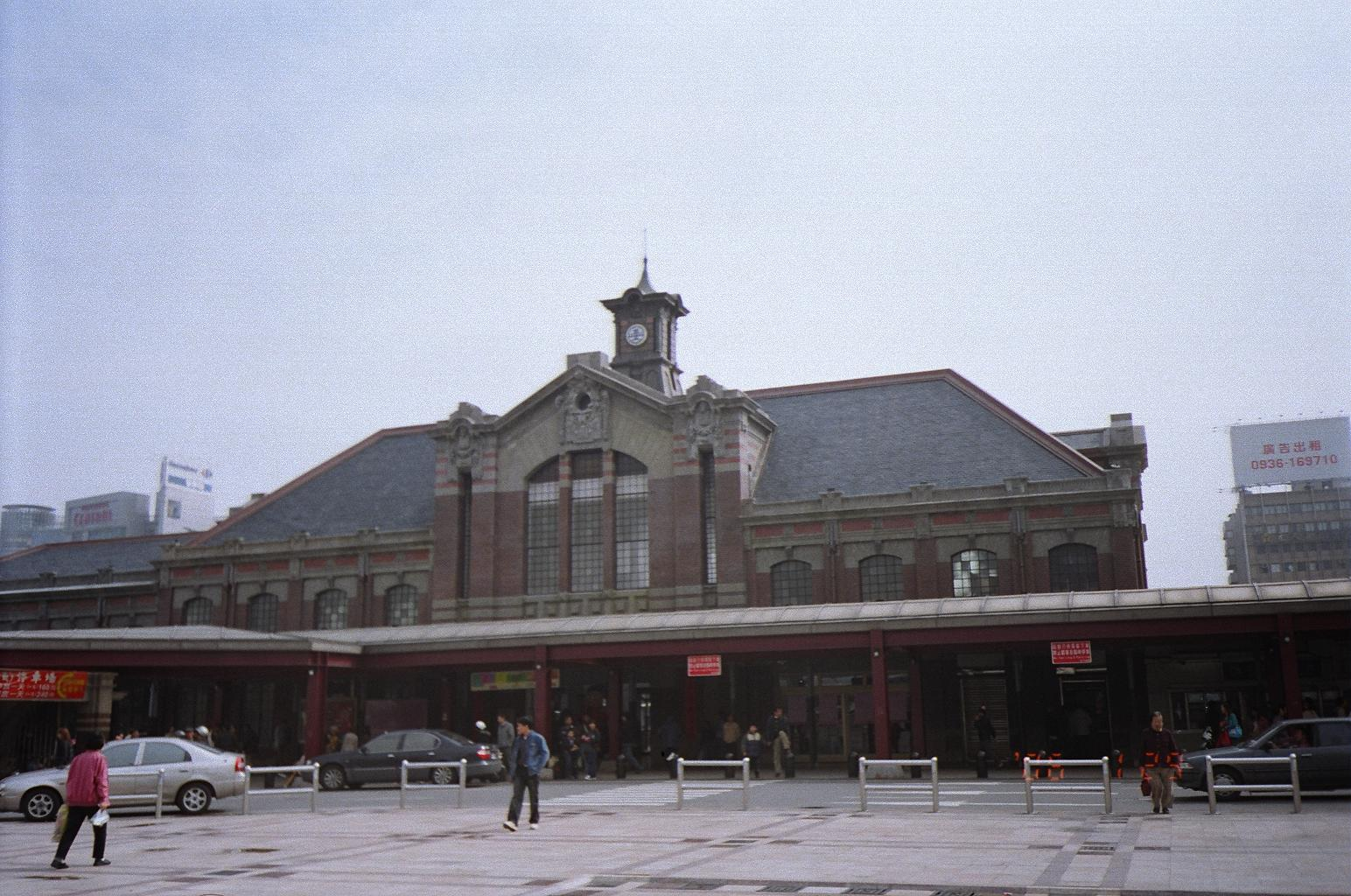 Taichung Station, Taiwan